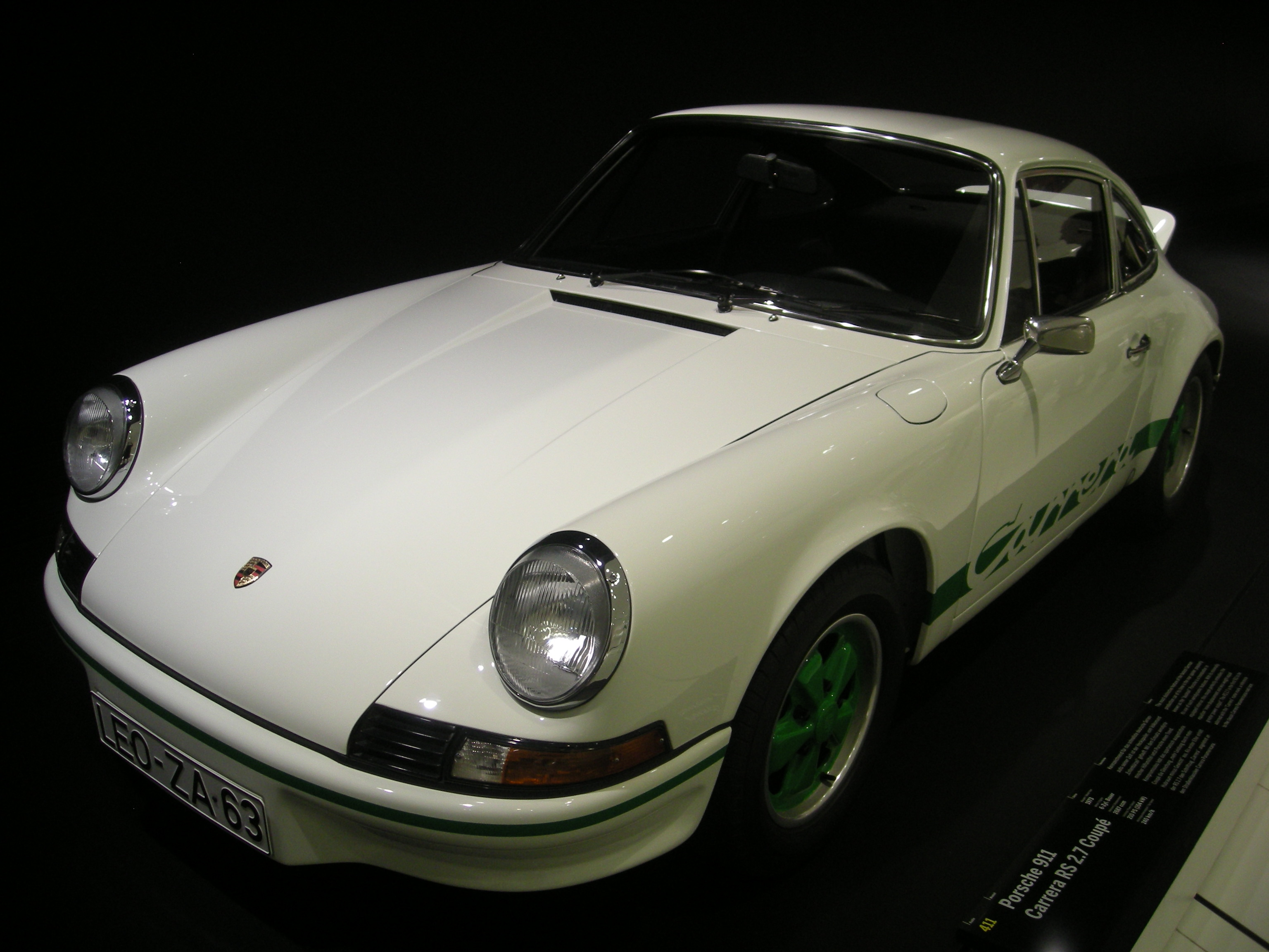 A 1973 Porsche 911 Carrera RS 2.7 Coupe inside the Porsche Museum in Stuttgart, Baden-Württemberg (Germany).